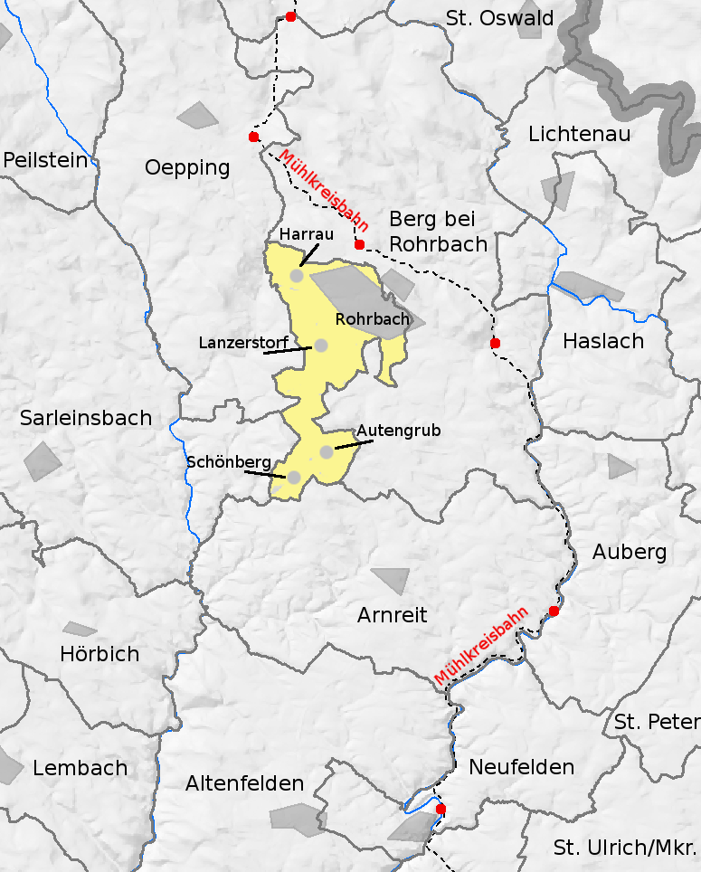 municipality map of Rohrbach with neighbour municipalities